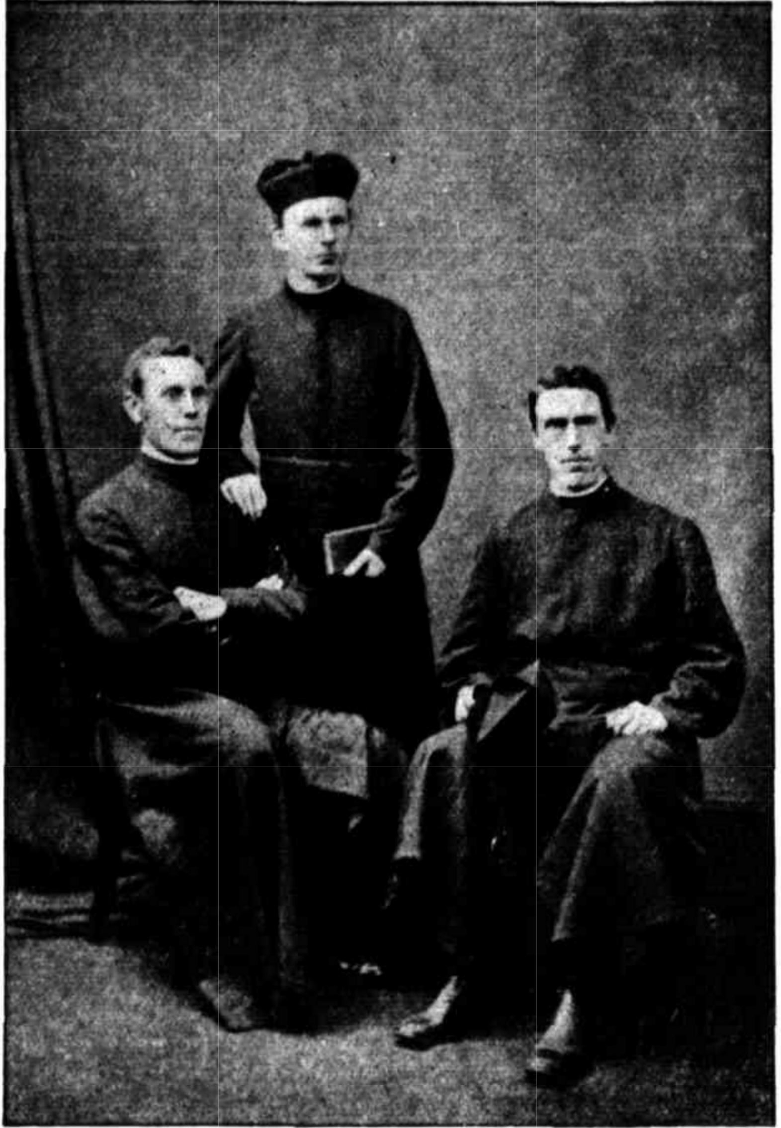 Three Pioneer Christian Brothers in Australia - Dominic Fursey Bodkin, Patrick Ambrose Treacy, John Barnabas Lynch (date of this photo is not known but Treacy died in 1912 and this photos shows him as a much younger man)